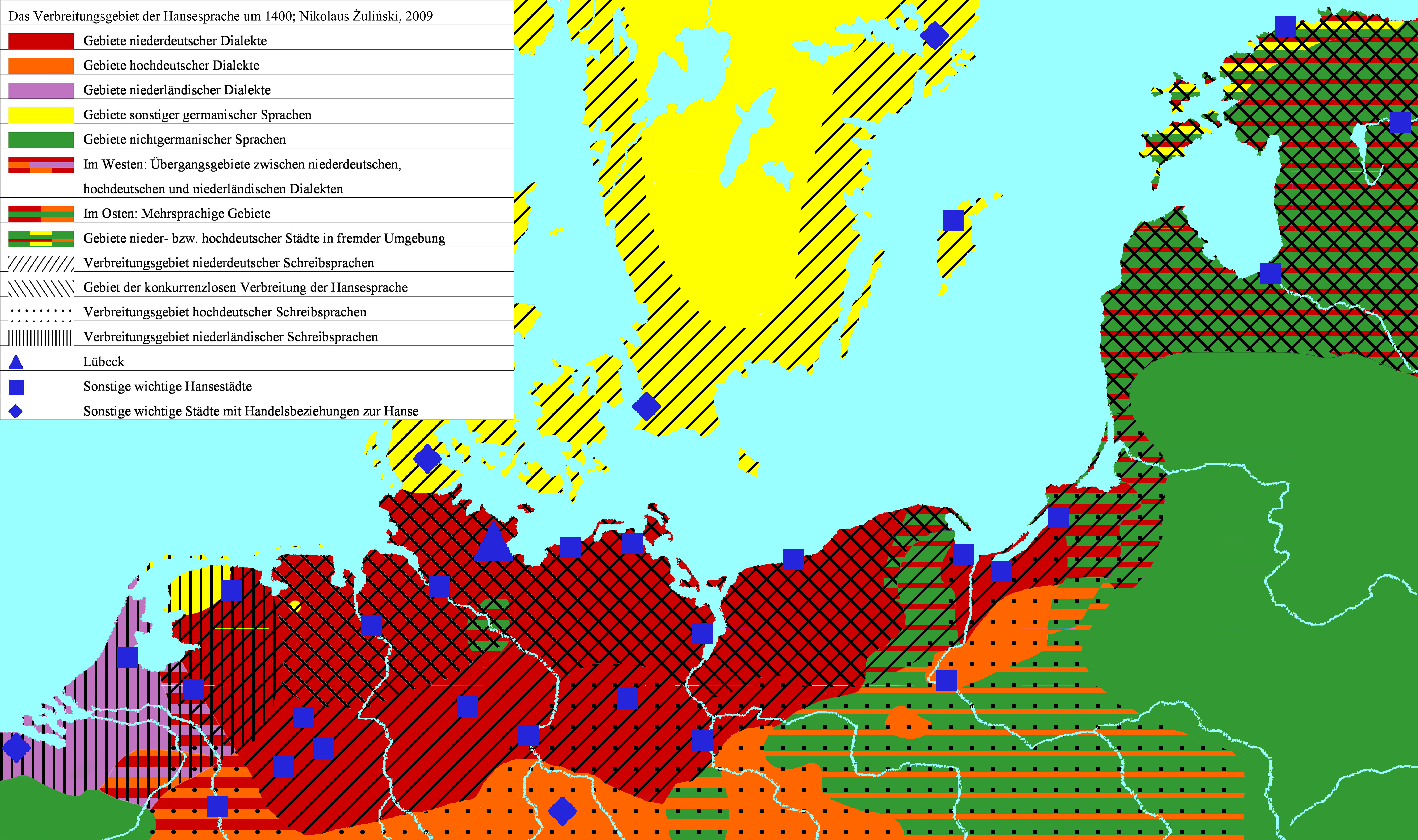 the prevalence of the "Hansesprache" around 1400